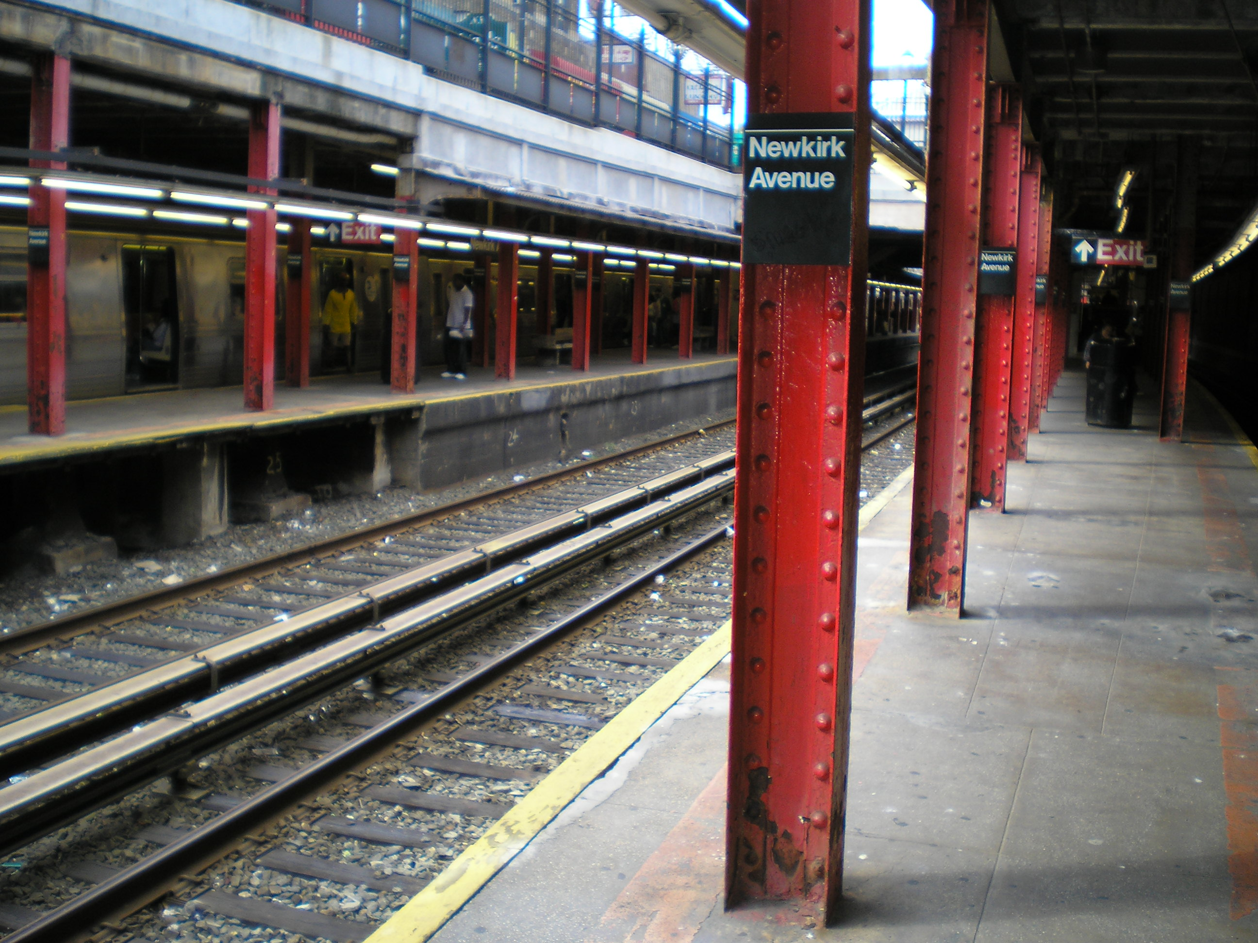 Newkirk Avenue station on the BMT Brighton Line. The BRT put some Dual System stations into an open cut instead of digging a tunnel for lowering construction costs. Here, two island platforms and the outer tracks are below the streets above. The express tracks were laid below the original line and needed not to be covered.